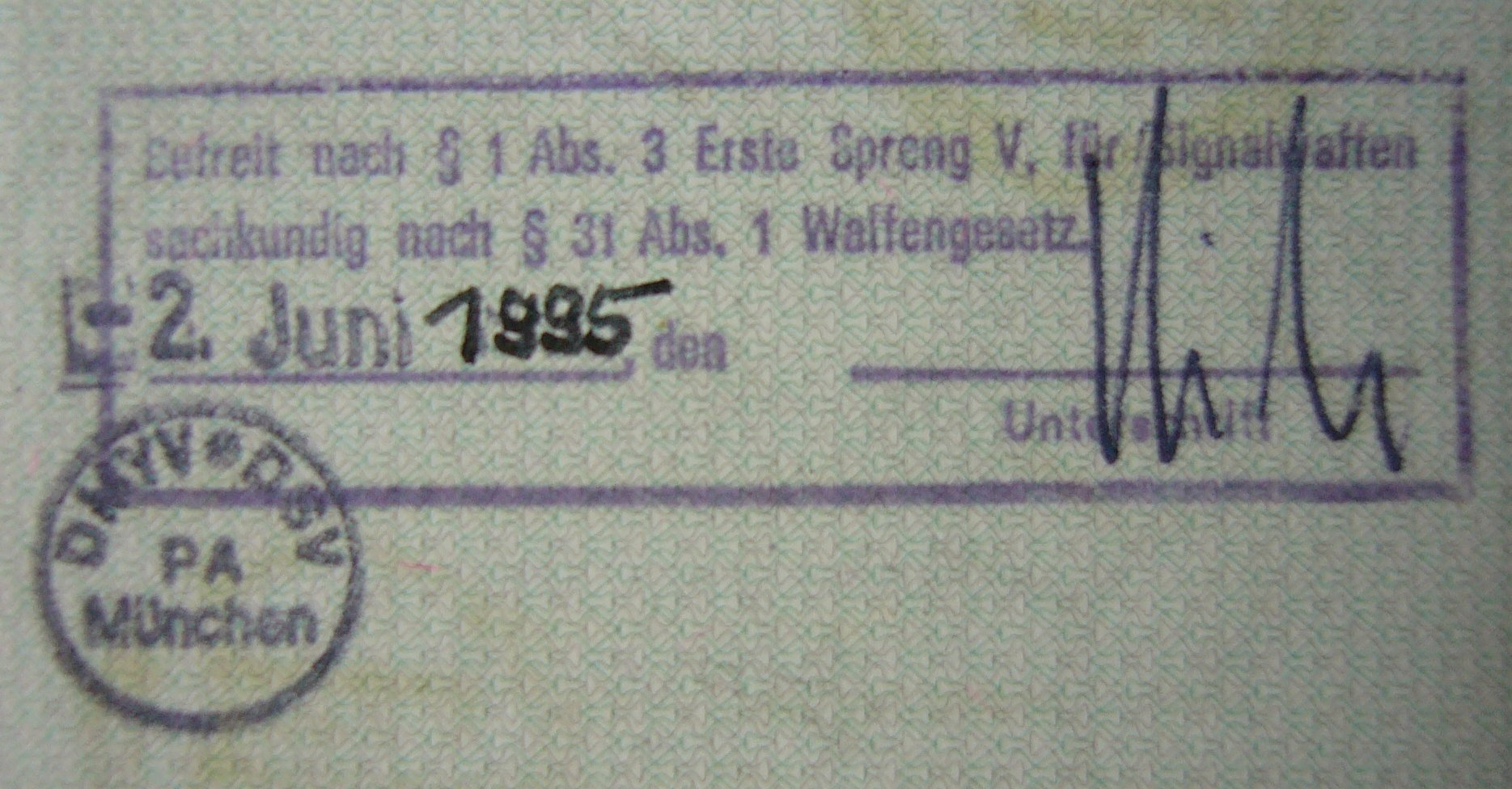 Permission to use Flare guns and their ammo.